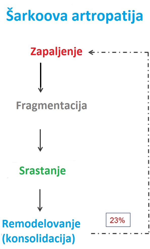 Charcot foot: natural course of disease with recurrence rates about 23%